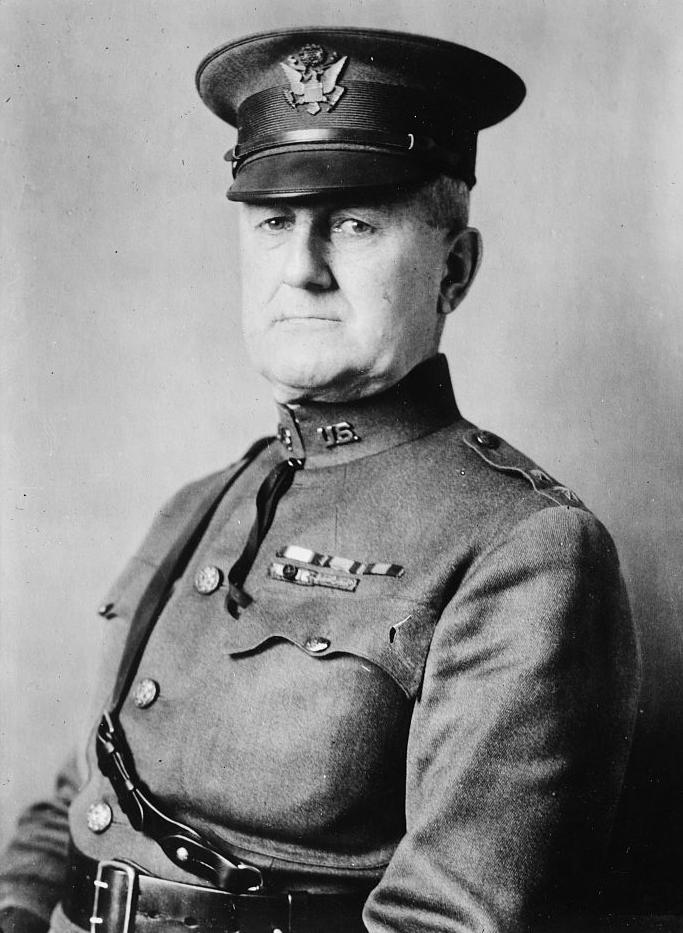 James Harbord George Grantham Bain Collection, Library of Congress